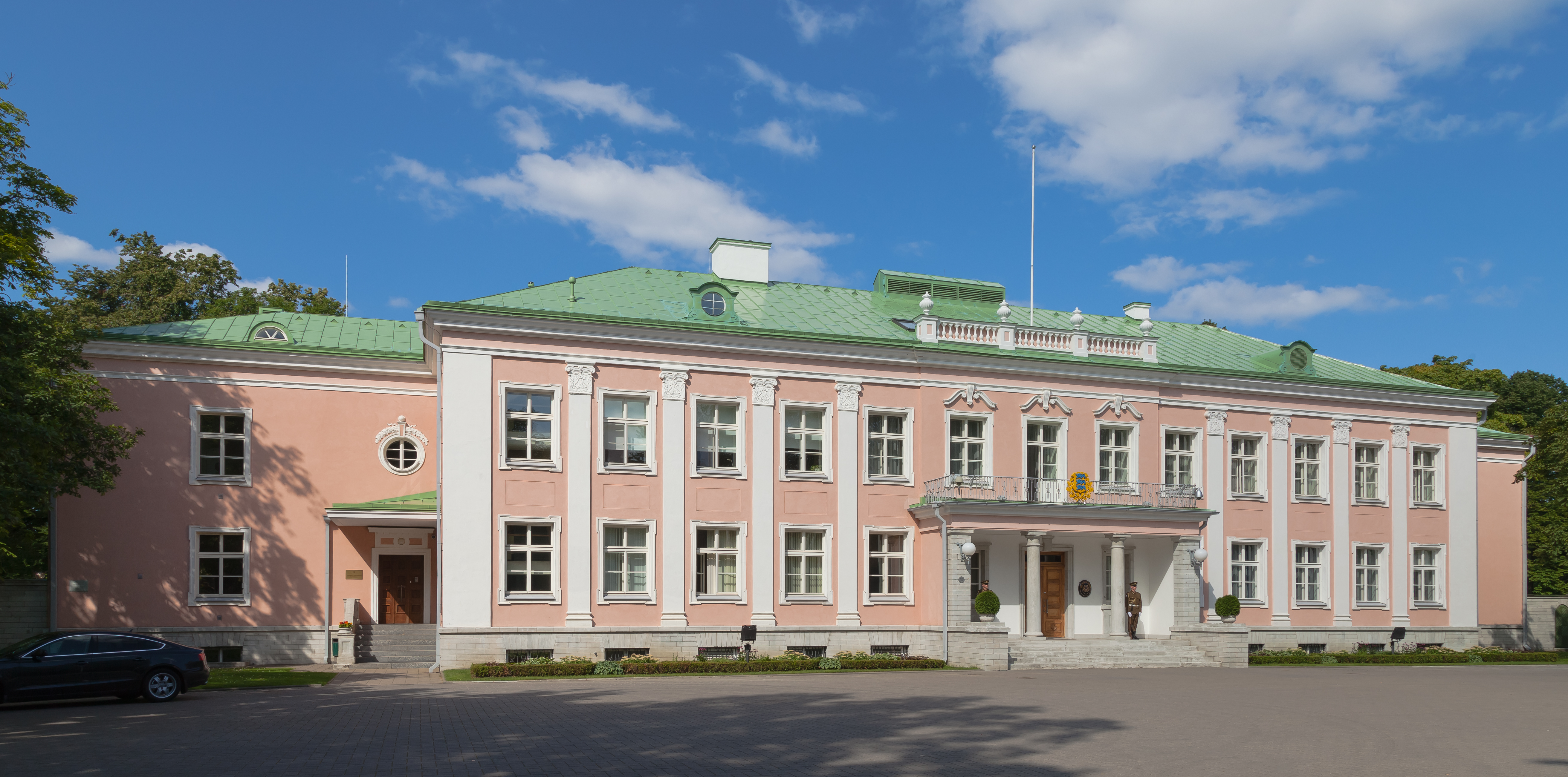 Presidential palace, Tallinn, Estonia